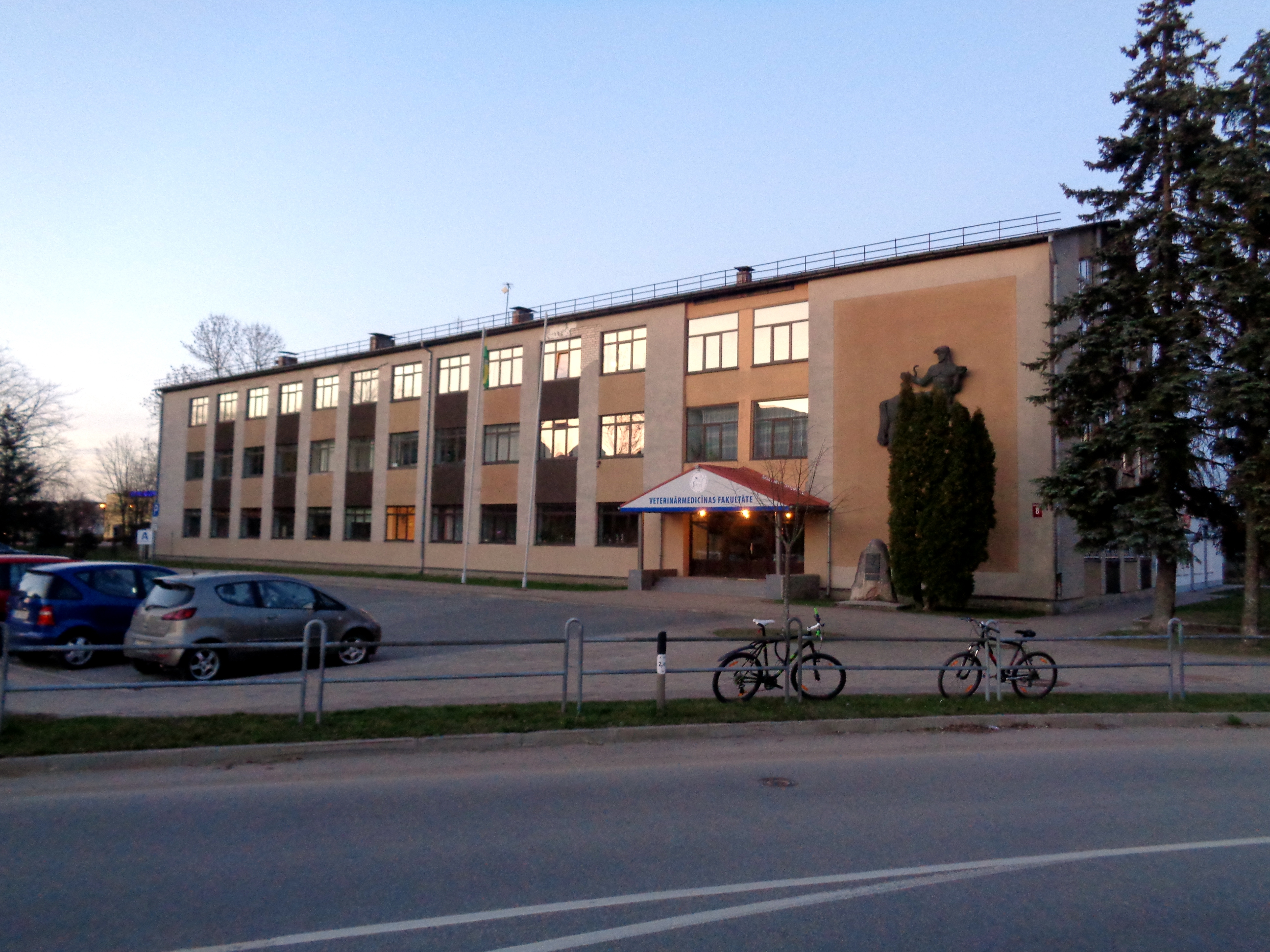 Faculty of Veterinary Medicine, Latvia University of Life Sciences and Technologies